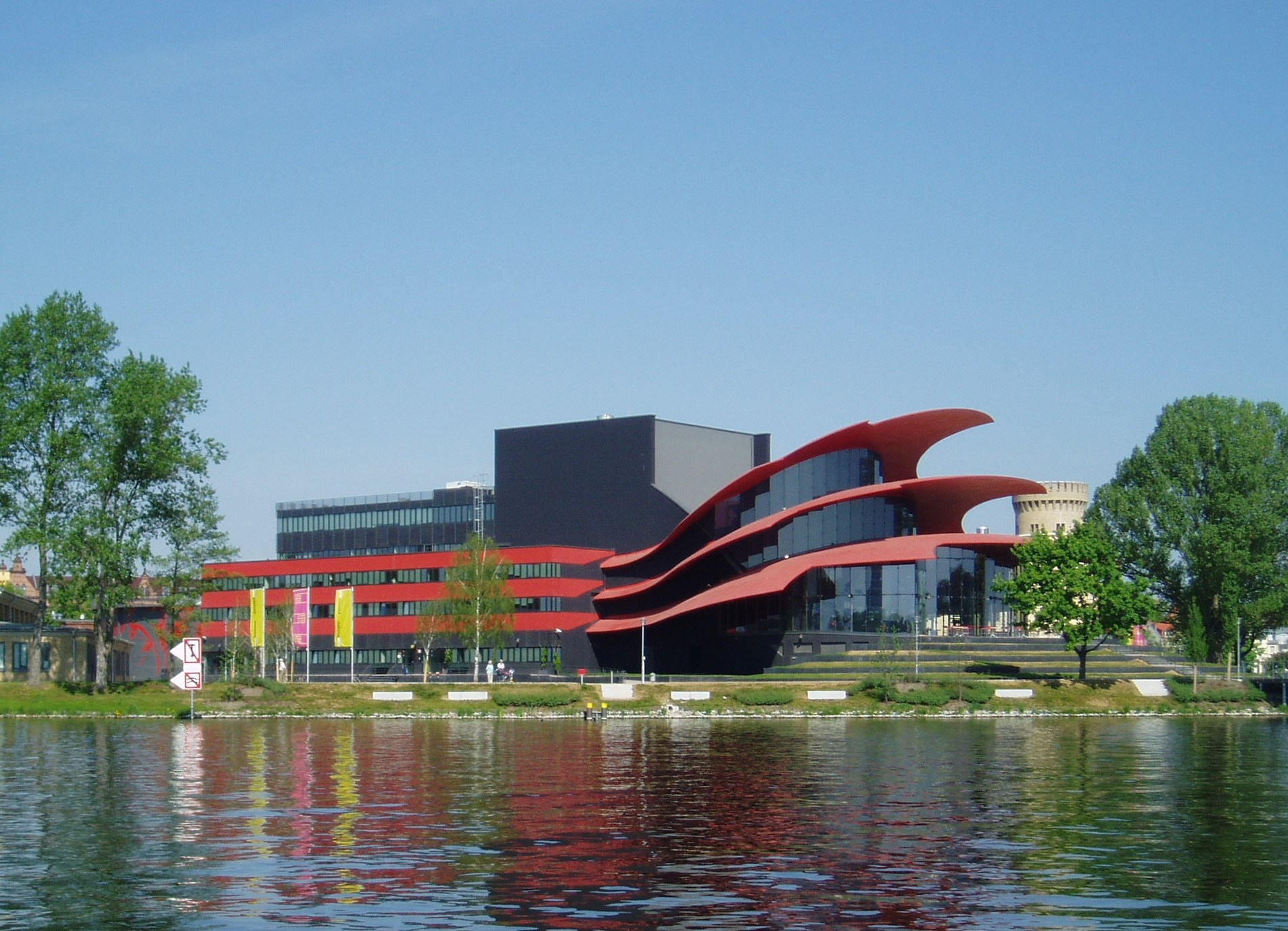 Hans Otto Theater, Potsdam, Germany